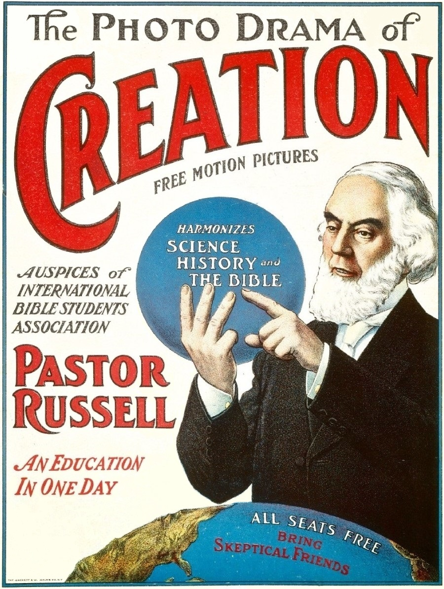 cover of the Photodrama of Creation